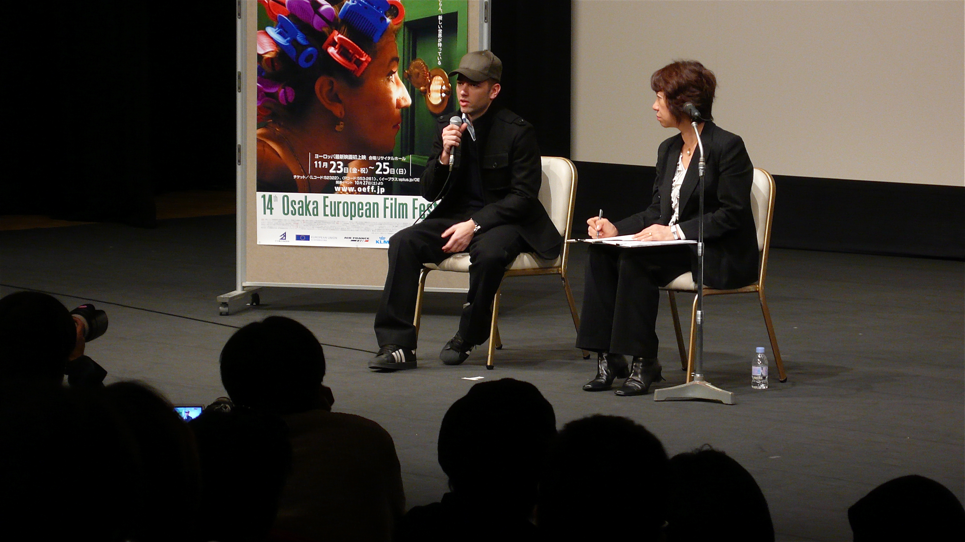 Sean Ellis at the 14th Osaka European Film Festival